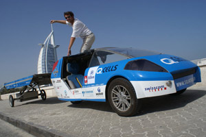 Louis Palmer from allows the use of this picture without restrictions.